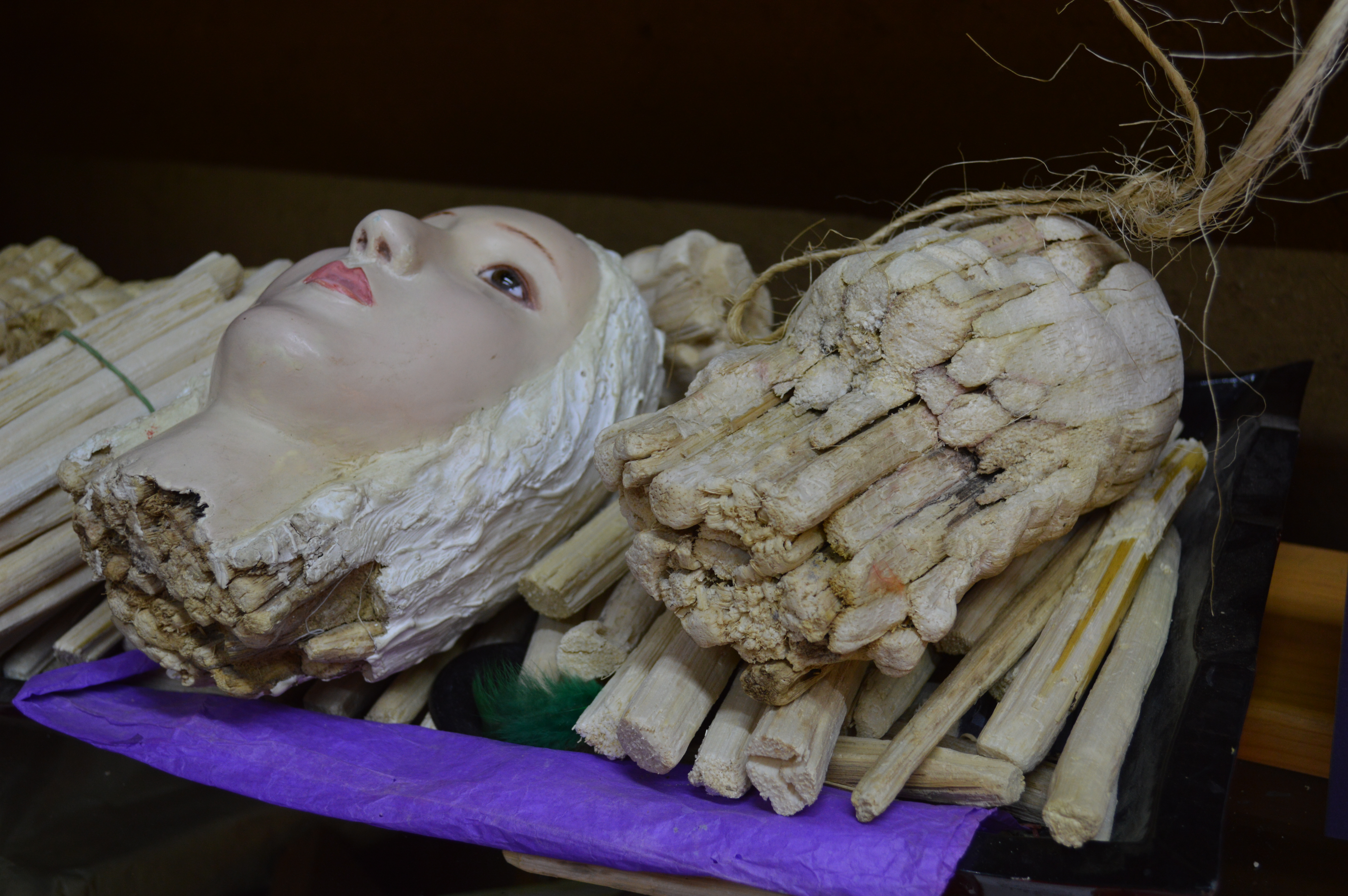 Corn cane head atthe Gaspar family workshop at the Casa de las 11 Patios in Patzcuaro, Michoacan